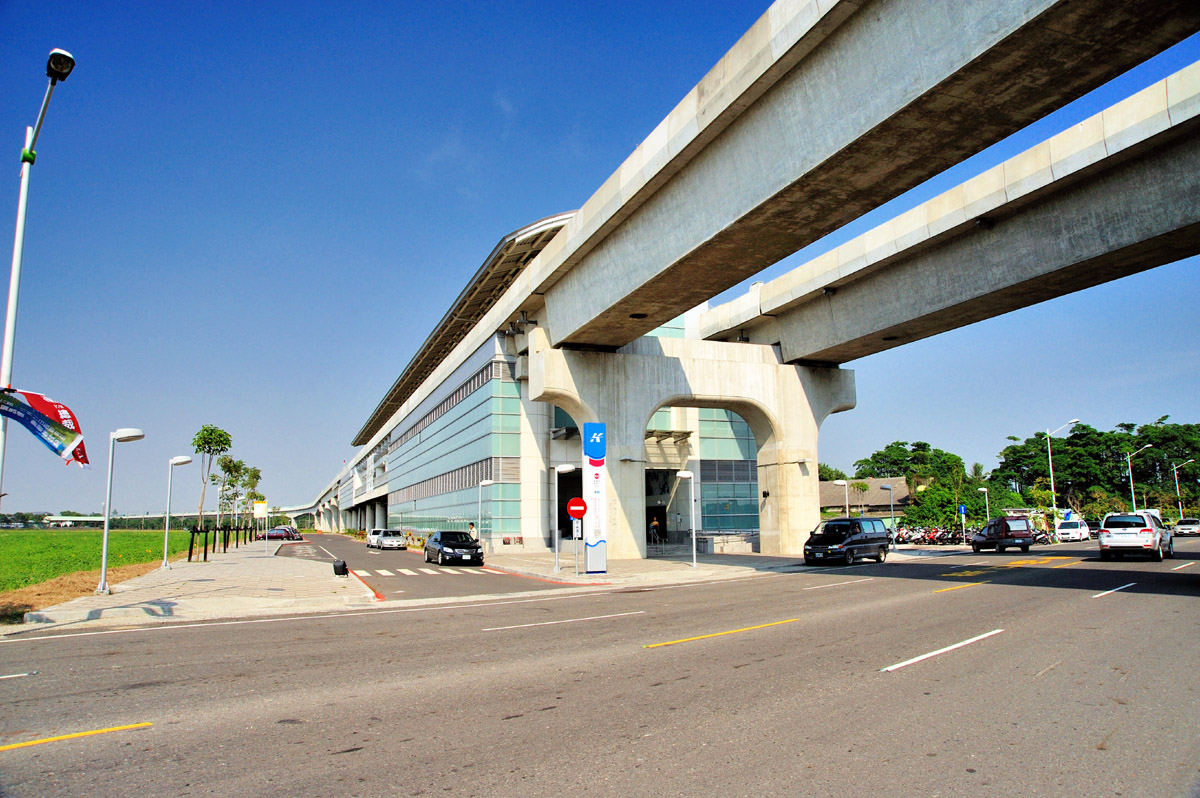 CingPu Station is a MRT station of KRTC. It locates within the boundary of CiaoTou Township, KaoHsiung County.